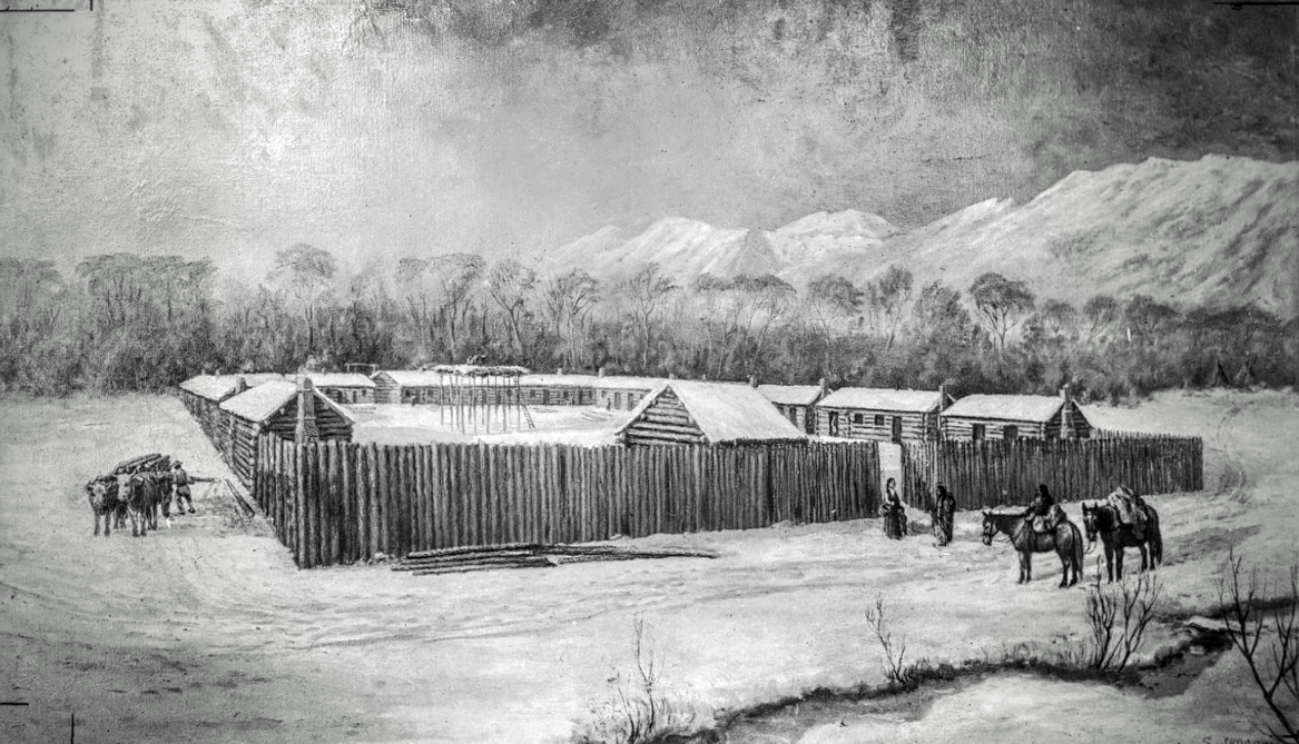 Fort Utah, the first settlement of white people in Provo, Utah. This fort was located south of the Provo River near the current intersection of Center Street and Vineyard Road.